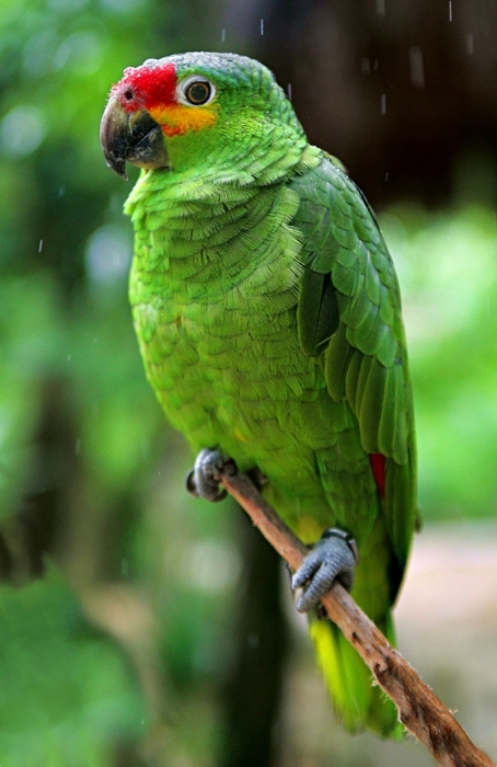 A Red-lored Amazon at Xcaret Eco Park, Riviera Maya, Mexico. Photographed as it started to rain. Portfolio - Blog